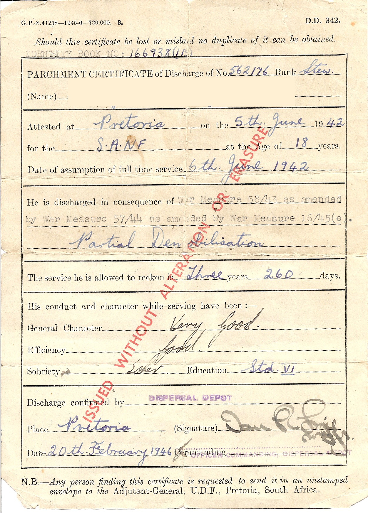 Papers issued to all South African servicemen on demobilisation at the conclusion of World War II.